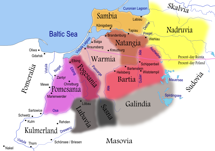 Map of Prussian clans during the 13th century. Areas shaded in grey reached further south than shown on this map. Prussian clans of Galindians, Sudovians, Sasna and Lubavia as well as Kulmerland had become subjected to numerous incursions and conquests by recently arriving Slavs.